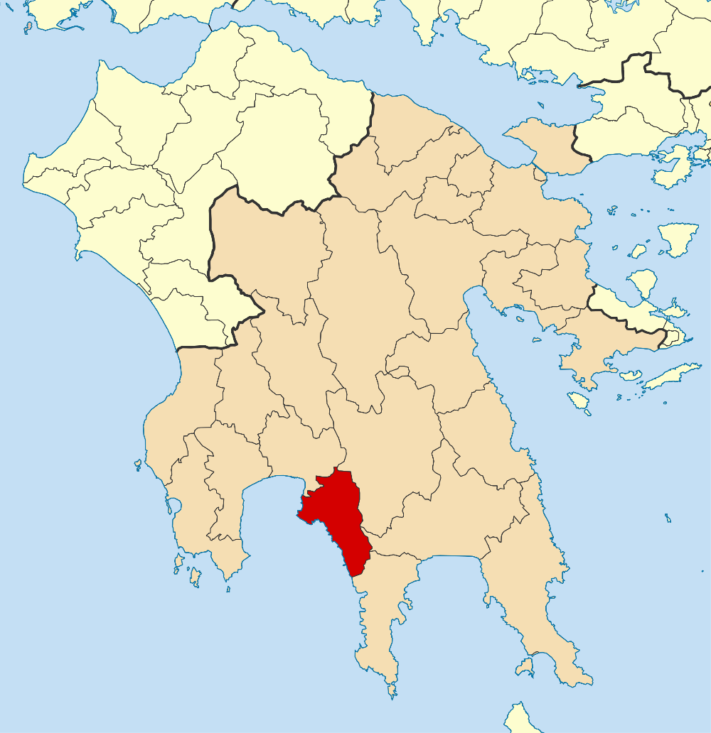 Locator map for Dytiki Mani municipality in Greek region Peloponnese (2011)